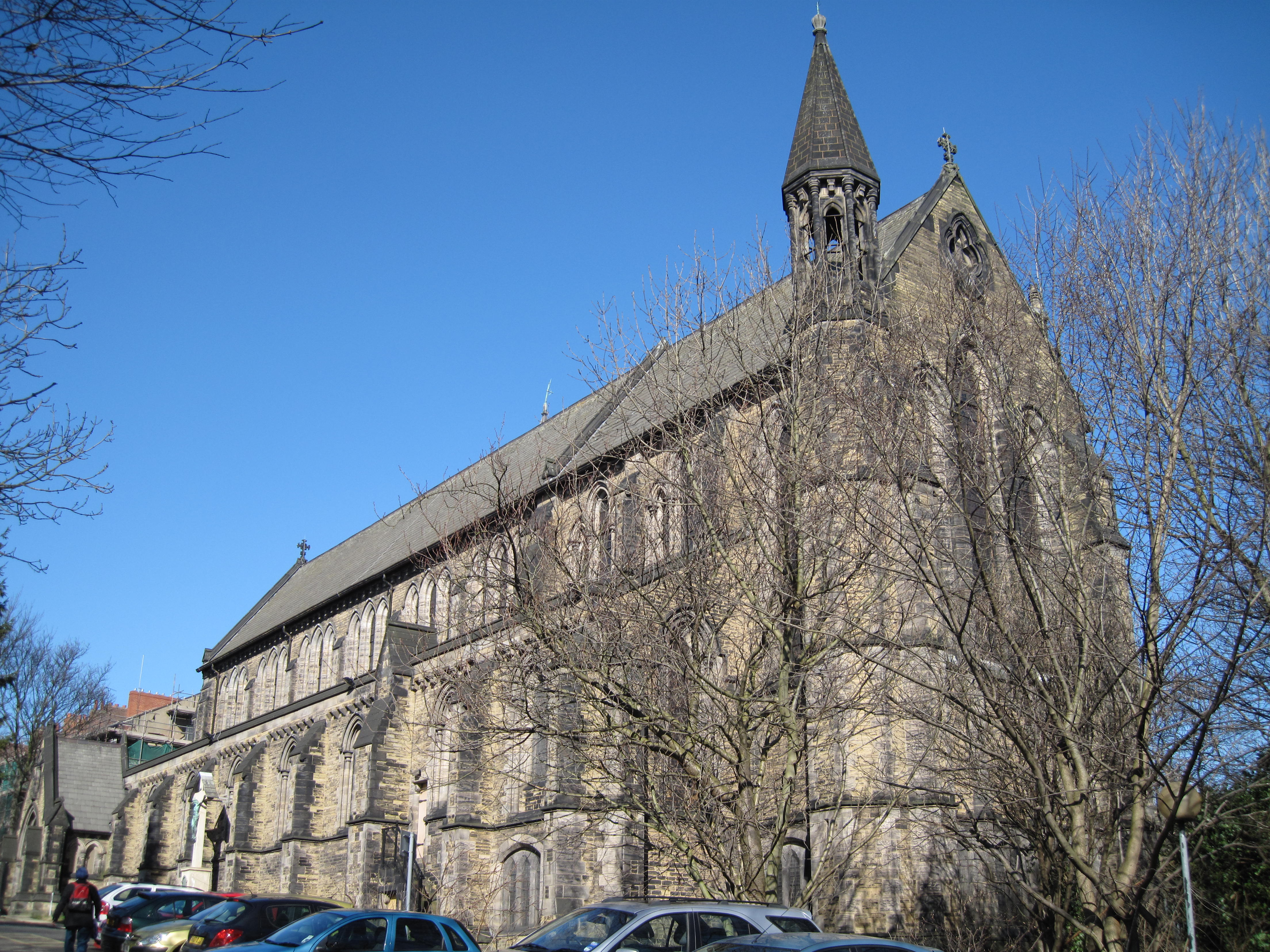 All Souls Church, Blackman Lane, LeedsLS7 1LW. View from the South, car park.